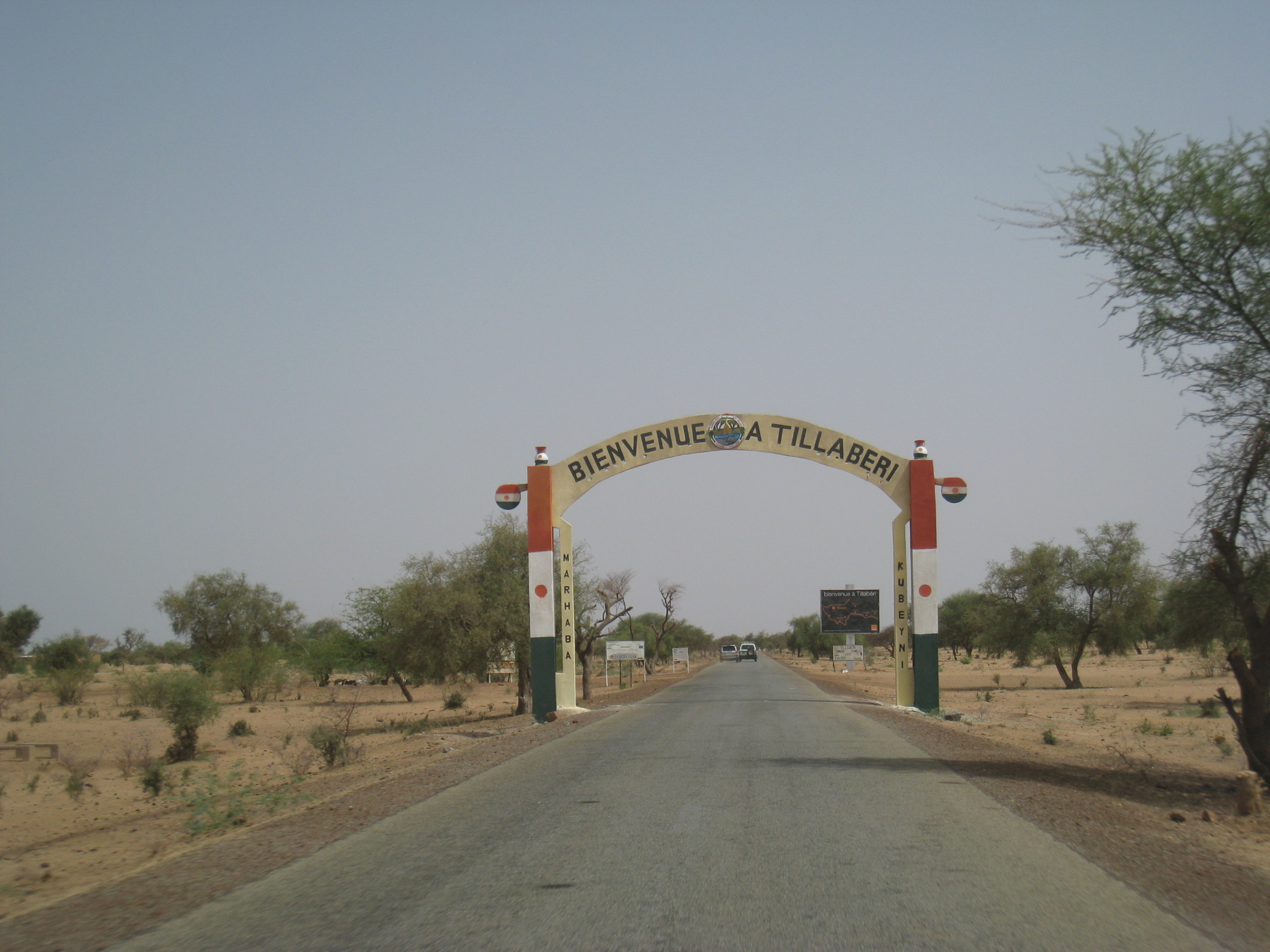 The welcome arch outside of the city of Tillaberi.